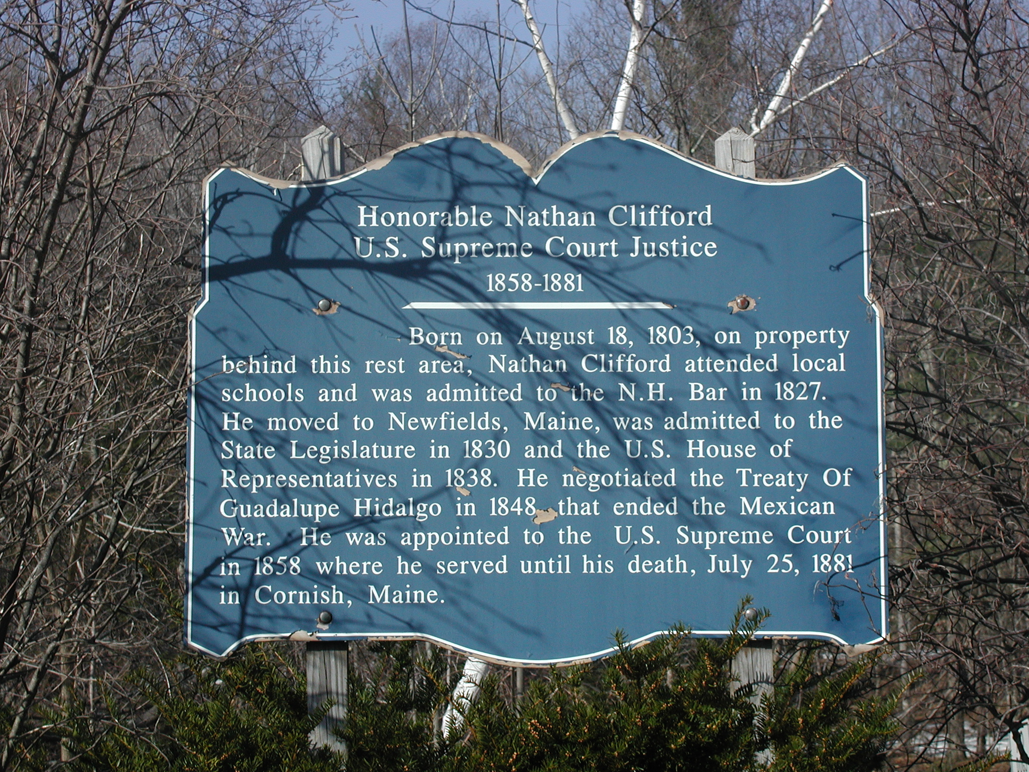 Nathan Clifford Historic Marker Rumney New Hampshire